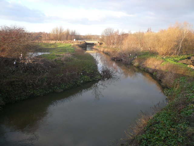 River Rother, Staveley, Derbyshire. Staveley - River Rother viewed from Hall Lane